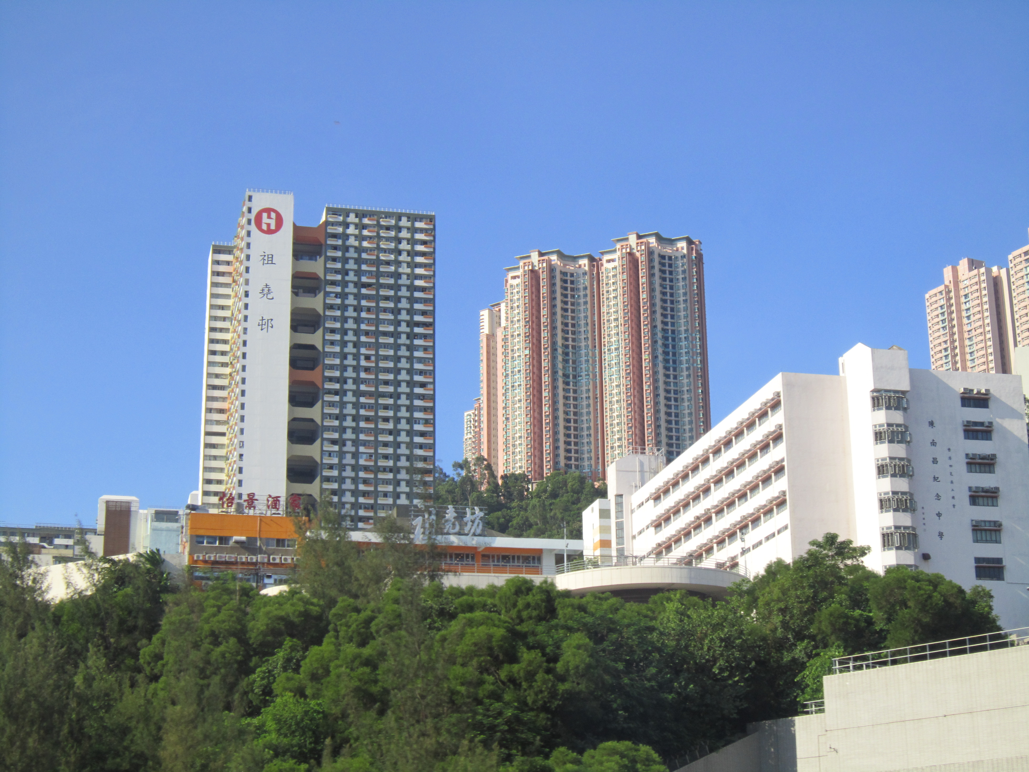 Cho Yiu Chun